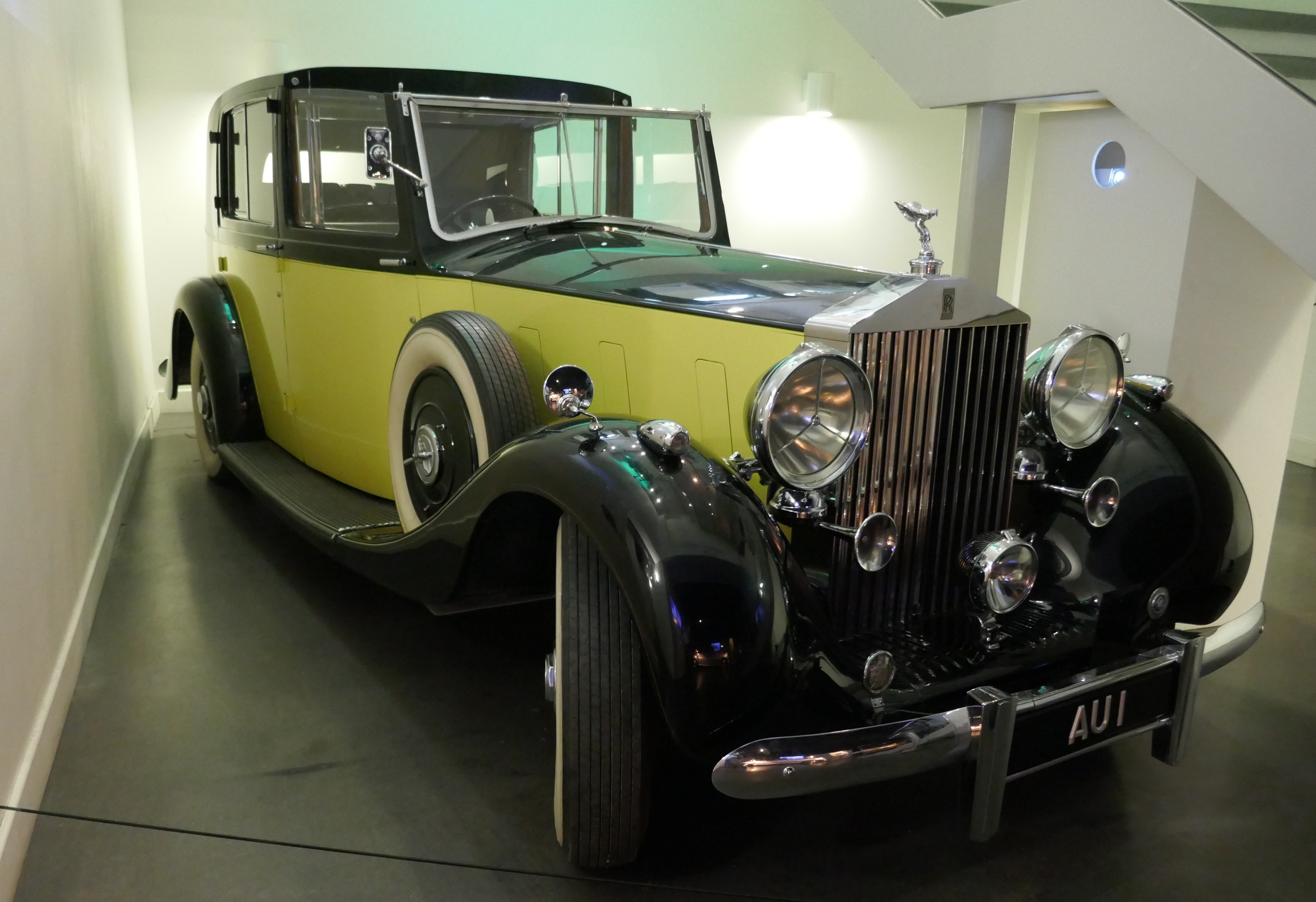 Rolls-Royce Phantom III from the movie "Goldfinger" National Film Museum, London - Bond in Motion Exhibition (2017)